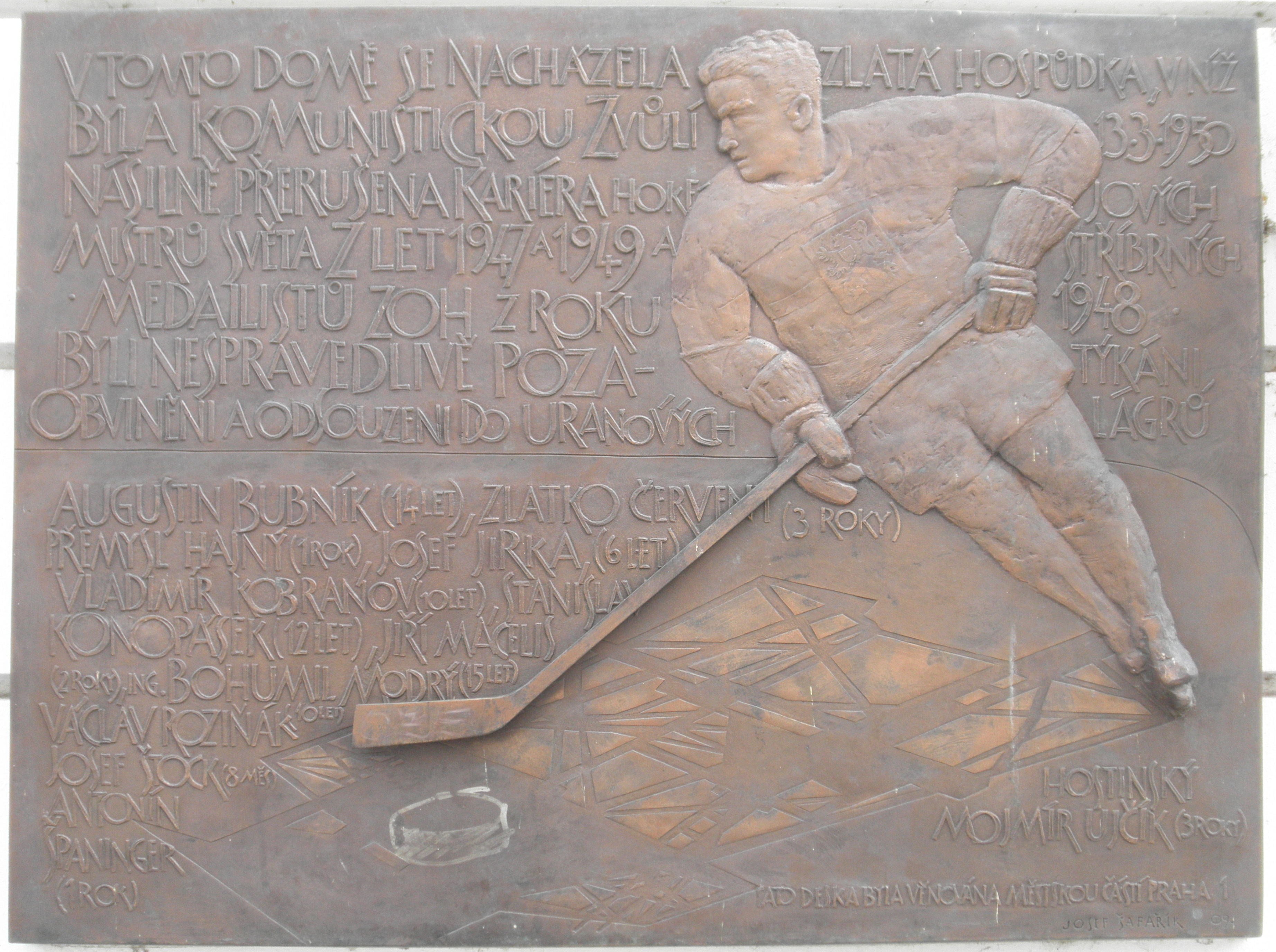 Photo of plaque devoled to Czech ice hockey players at 24 Pštrossova street, Prague made by Jaroslav Zahrádka. It was installed in 2009.